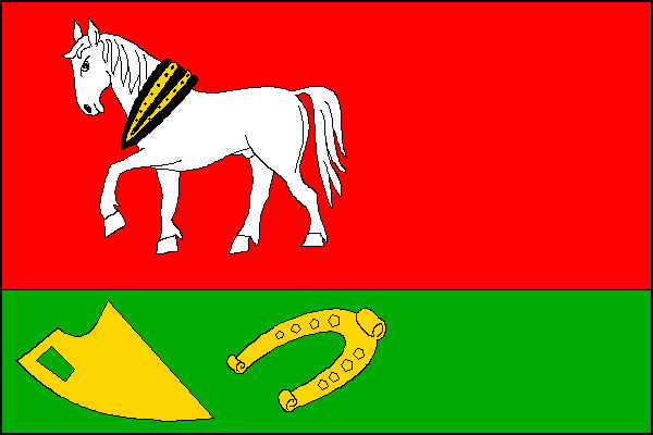 Municipal flag of Podolí village, Vsetín District, Czech Republic.